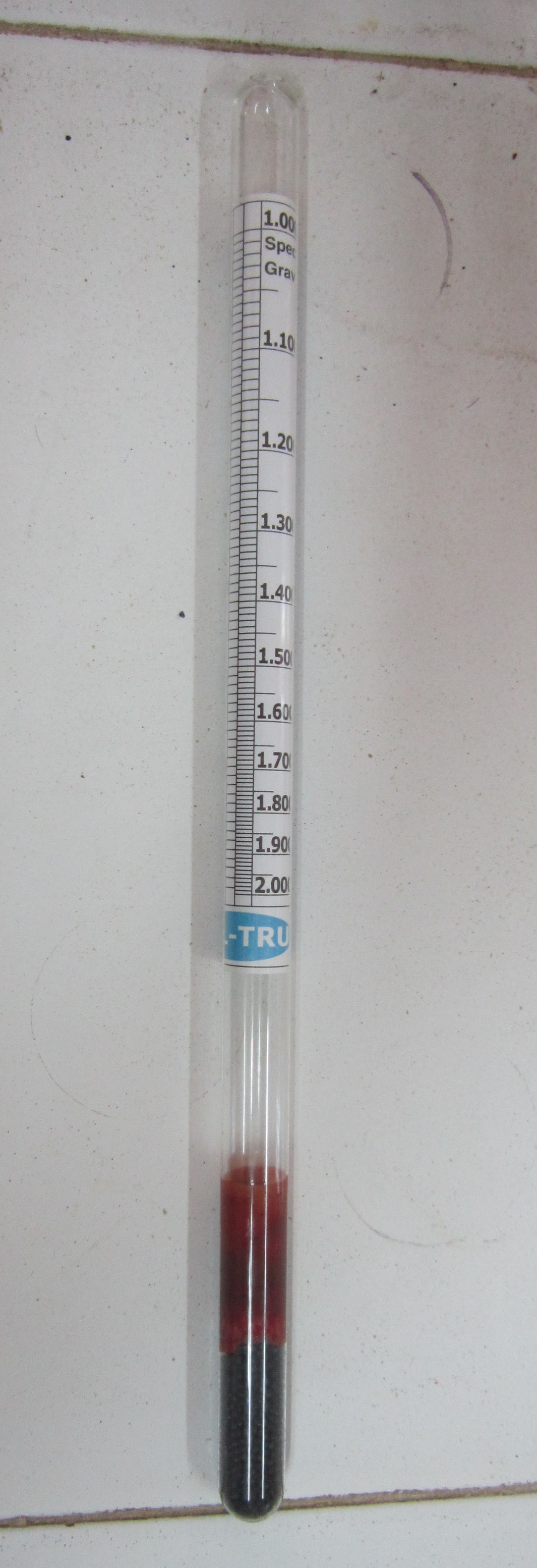 Laboratory Equipment - to determine density and Baum e of Liquids